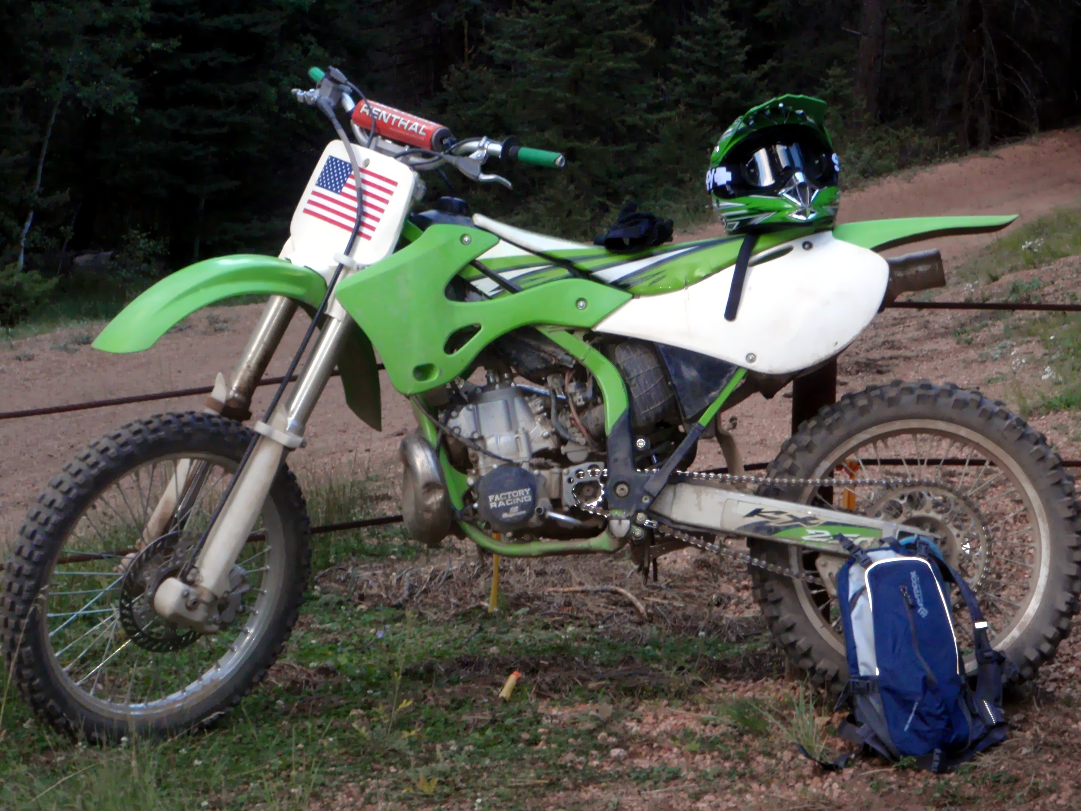 My new toy, I love it!